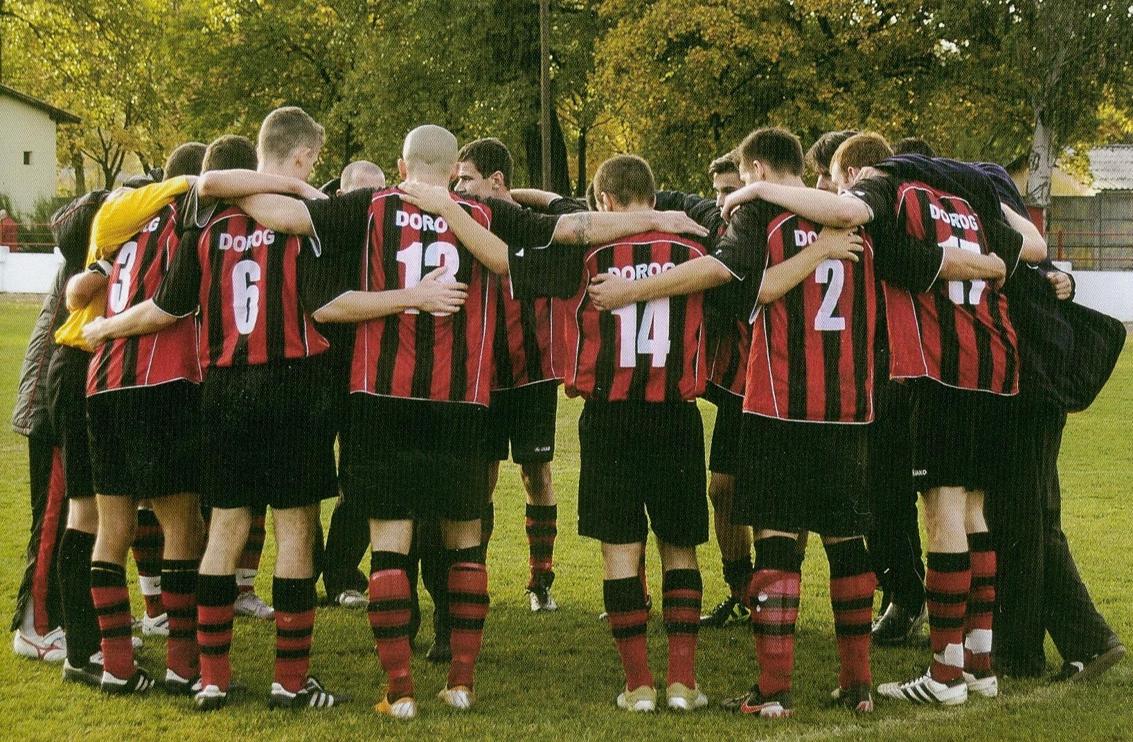 Soccer players of FC Dorog as real and serious team feeling together.